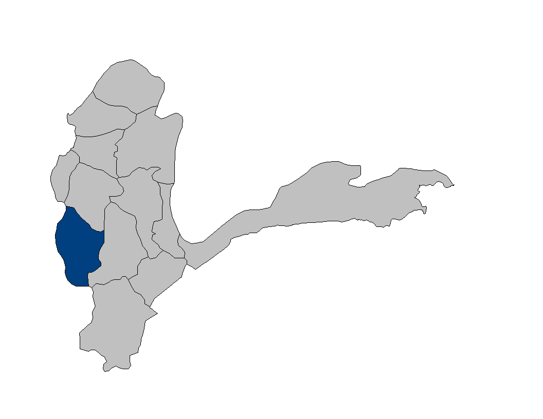 Location map for the Kishim District of Badakhshan Province, Afghanistan. Original map source: Image:Badakhshan districts.png